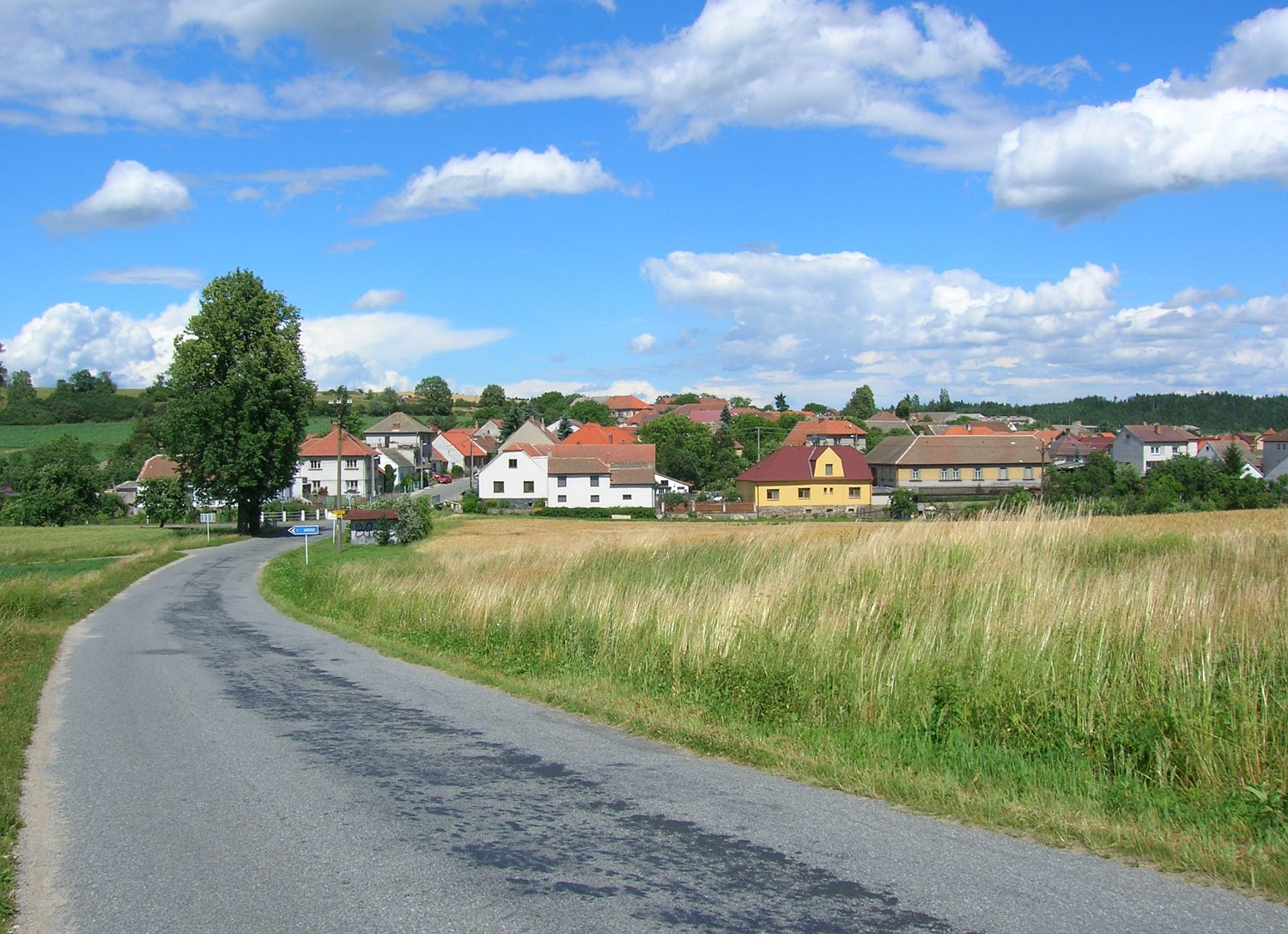 Třebíč-Budíkovice. From SW